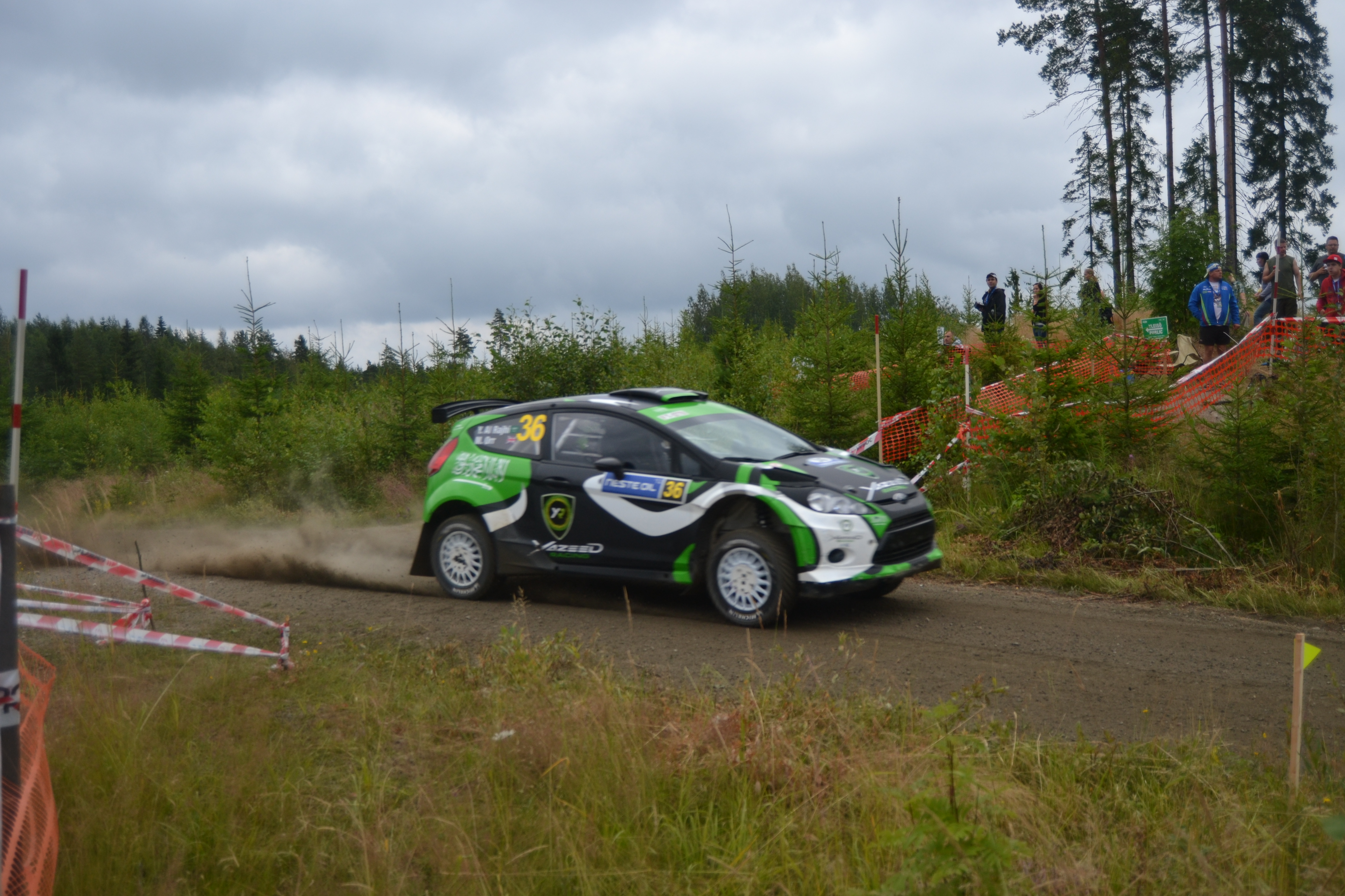 Yazeed Al-Rajhi at 2nd Surkee stage at 2012 Rally Finland Unknown